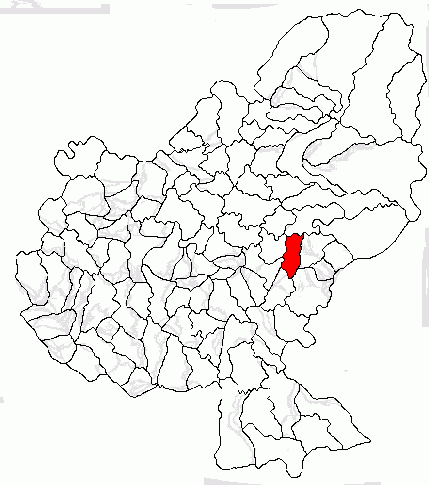 Locator map of the commune of Bereni, Mureș County, Romania